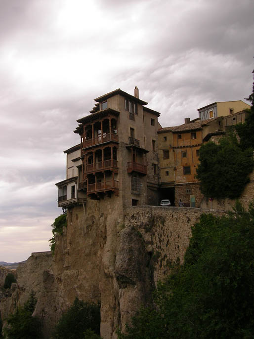 FOTO DE LAS CASAS COLGADAS HECHA POR MI JULIO 2005